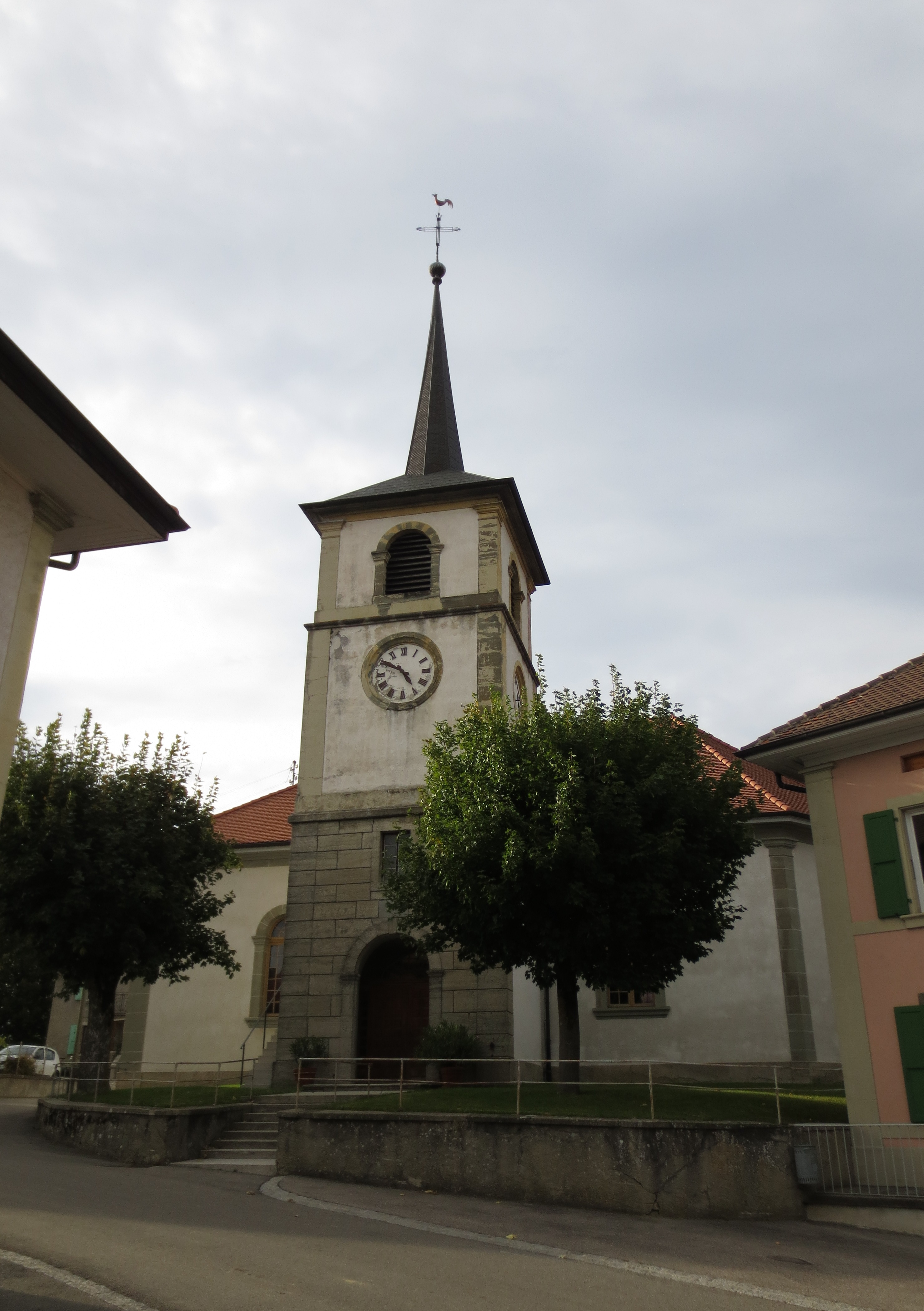 Dompierre church, Canton of Vaud, Switzerland